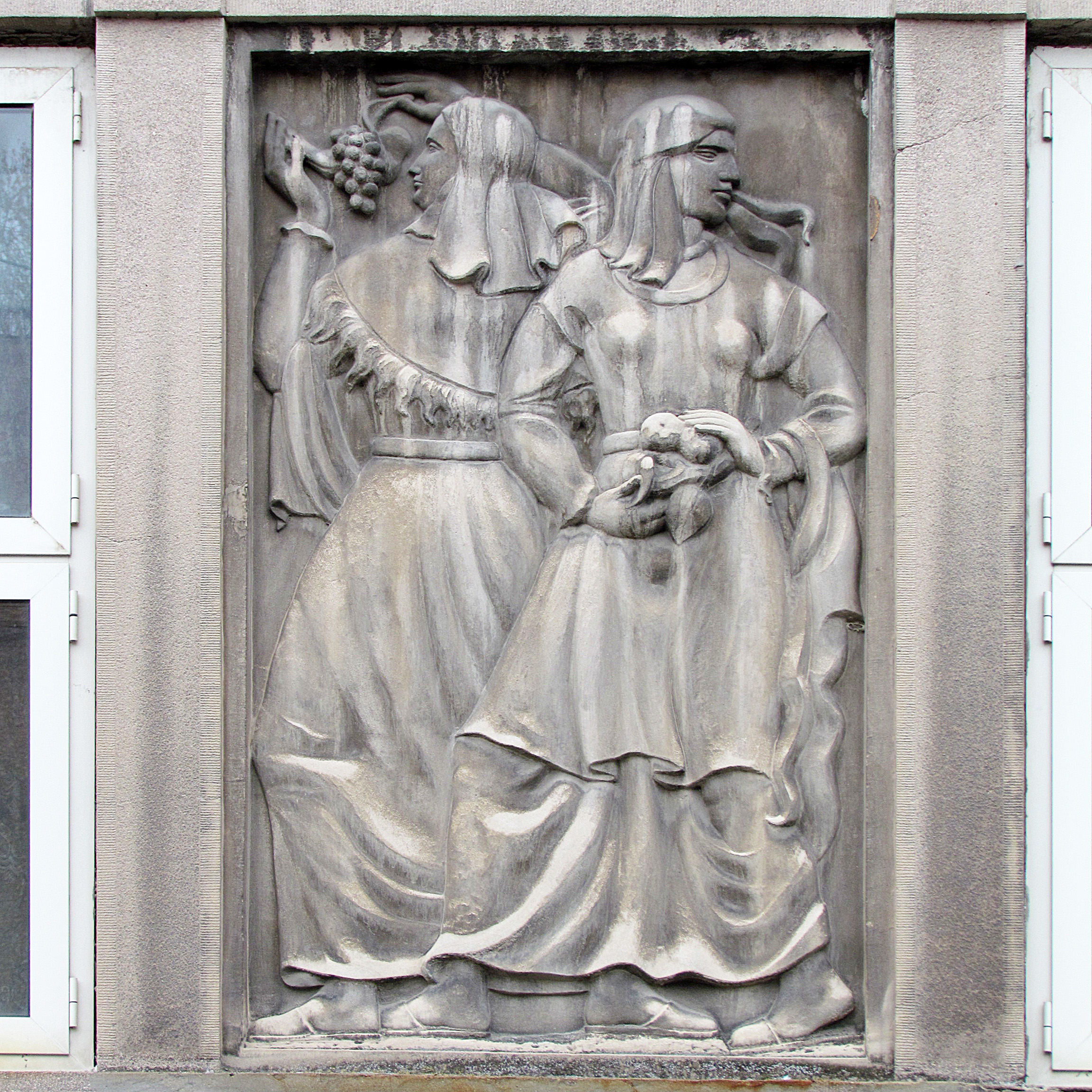 Bas-Relief in Zemun, Serbia